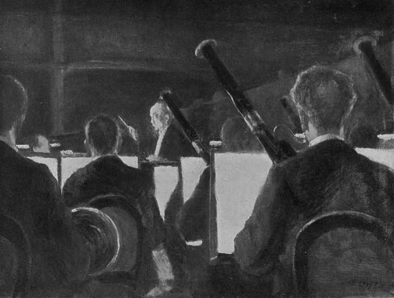 Painting by Ernst Oppler, showing Richard Strauss in the Semperoper Dresden